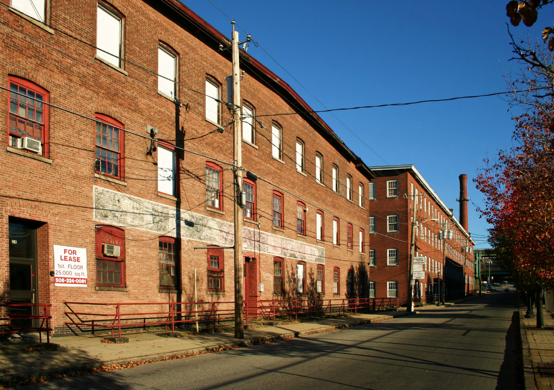 Anawan Street, Fall River, Massachusetts - Warehouses of the former American Printing Company